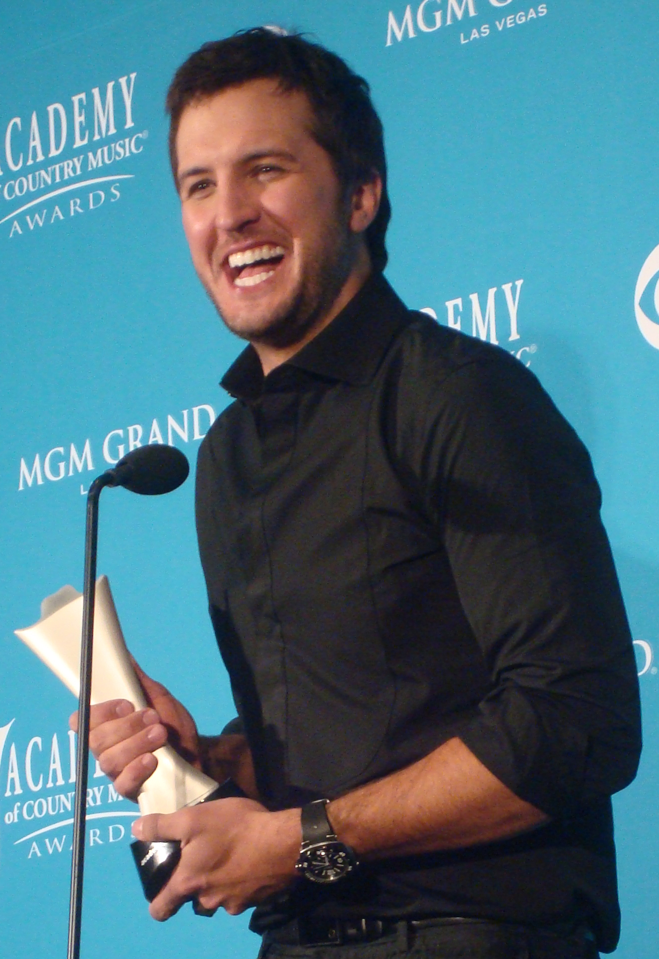 Luke Bryan at the 45th Annual Academy of Country Music Awards.